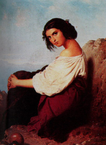 Konstantin Johannes Franz Cretius: A portrait of a young peasant girl seated on a rock (around 1842) Medium Oil on Canvas Größe 16,5 x 13,3 in. / 41,9 x 33,7 cm. Bez. Signed Verkauft durch Butterfields: Mittwoch, 16.Mai 2001